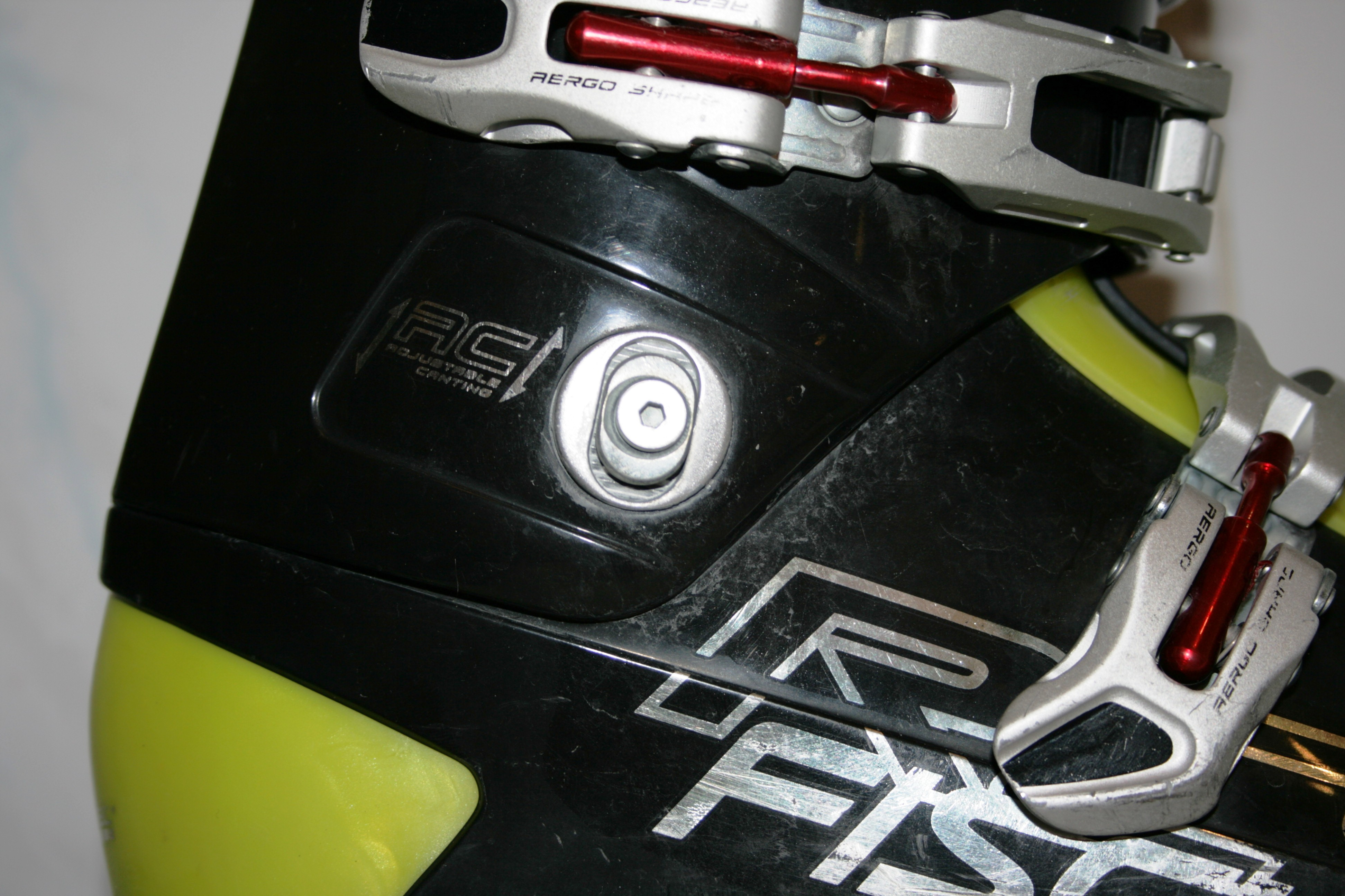 ski boot - adjustable canting in the center